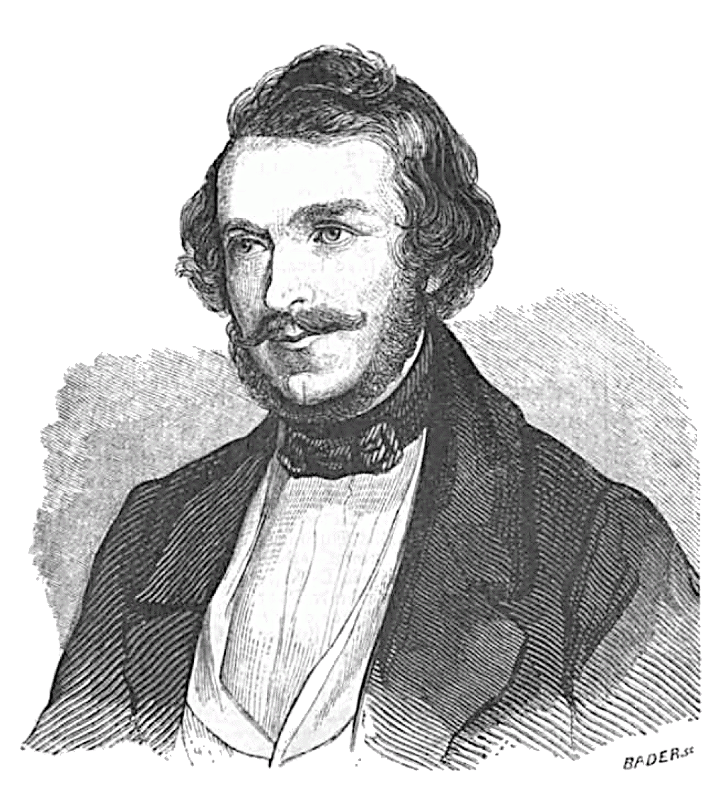 Carl Adam Kaltenbrunner (1804-1867), Austrian poet and writer